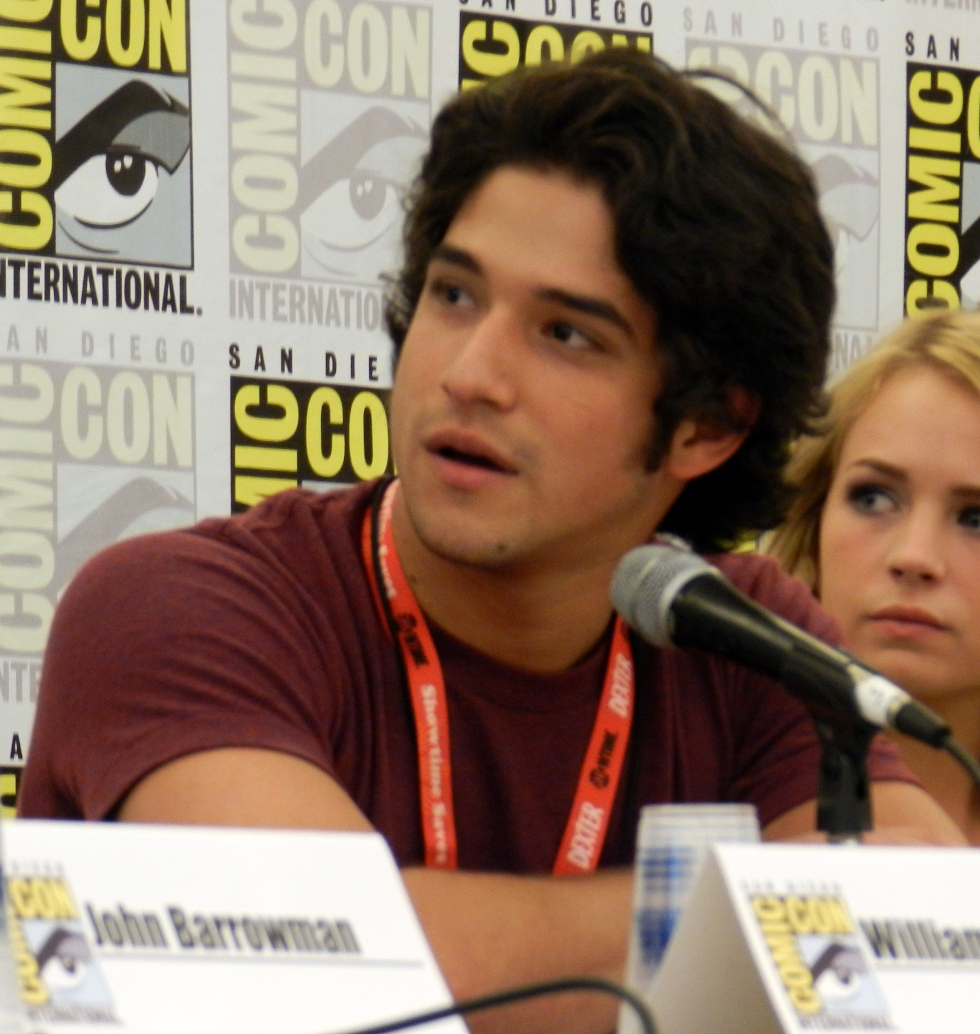 Tyler Posey at the Comic-Con 2011.